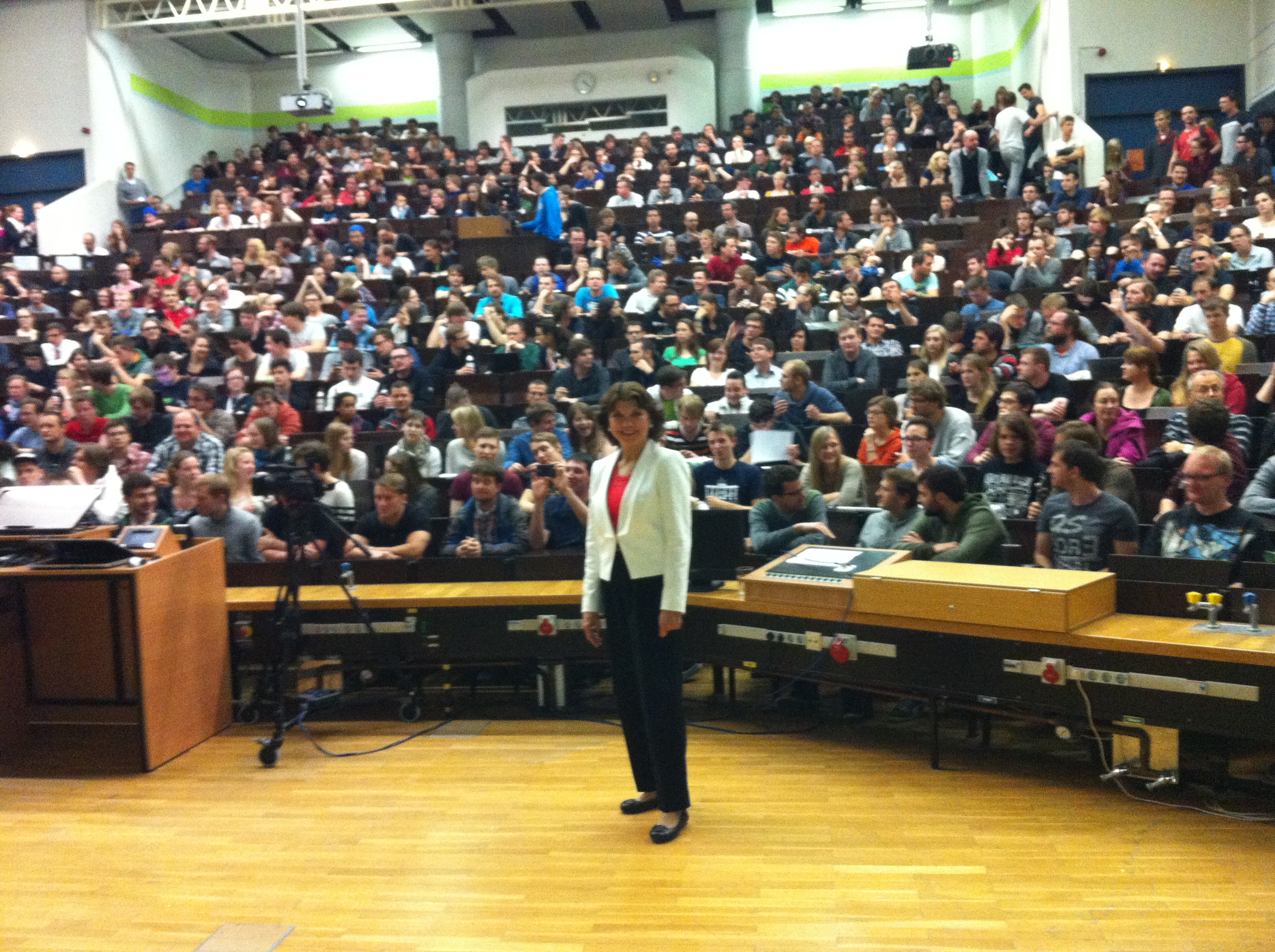 Donna Nelson speaking in Bayreuth, Germany, 16May2014